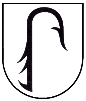 Coat of arms of Hesselhurst in Willstätt